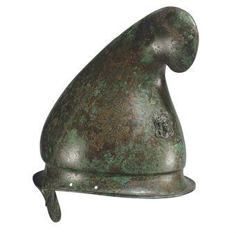 A Greek Bronze helmet of Phrygian type. Late Classical to Early Hellenistic Period, circa 350-300 B.C. Of hammered sheet, the high crown arching forward and terminating in a vertical rounded peak, a carinated ridge above the flaring rim, the neck-guard extending lower than the visor, its front edge with rounded ear protectors overlapped by pointed projections at the rear of the visor, with three perforations on either side for attachment of now-missing cheek-guards, the front ornamented with an appliqué in the form of a facing head of Athena wearing a triple-crested helmet, her face framed by long wavy hair. 13 in. (33 cm.) high